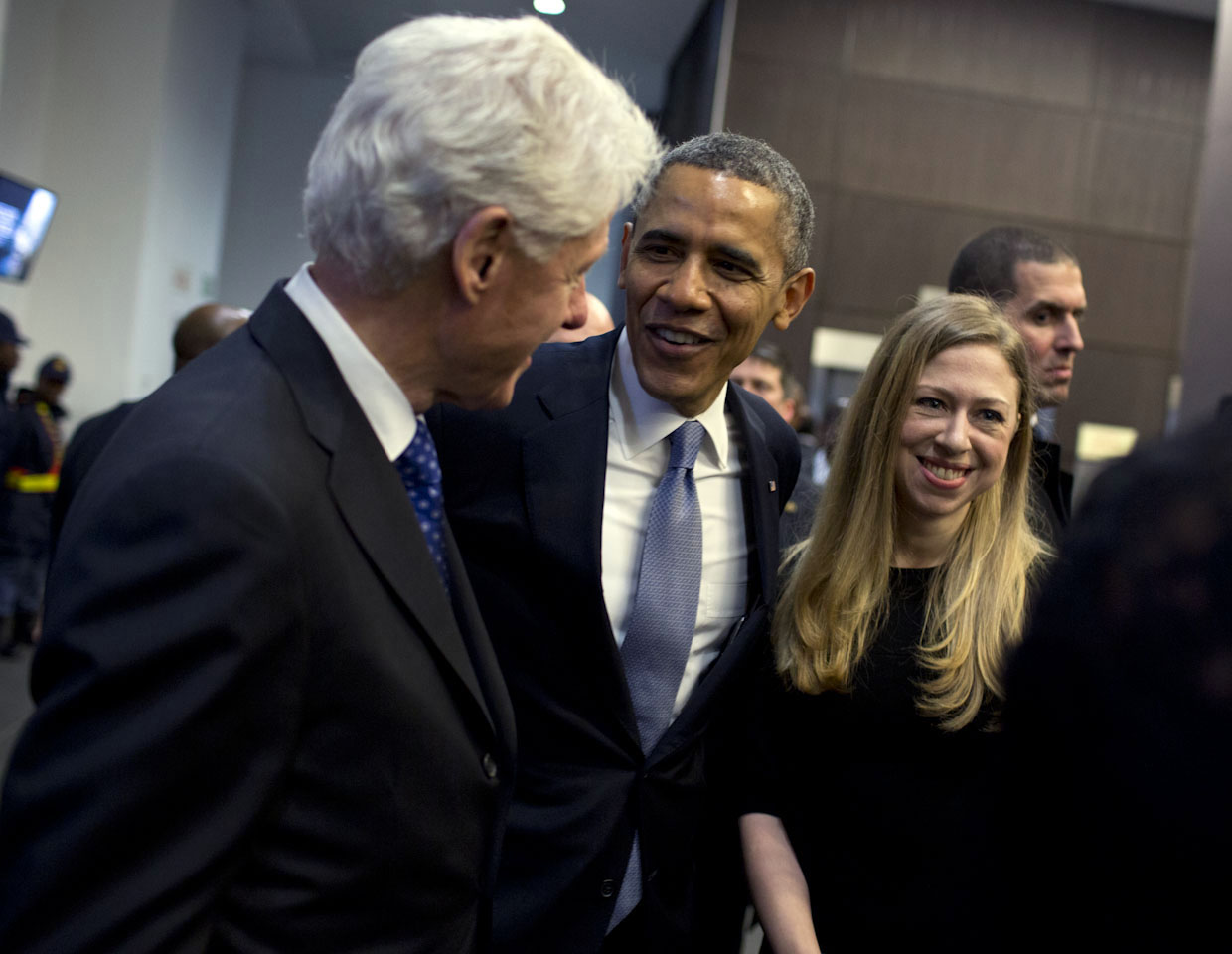 President Obama bids farewell to former President Bill Clinton and his daughter Chelsea. (Official White House Photo by Pete Souza)